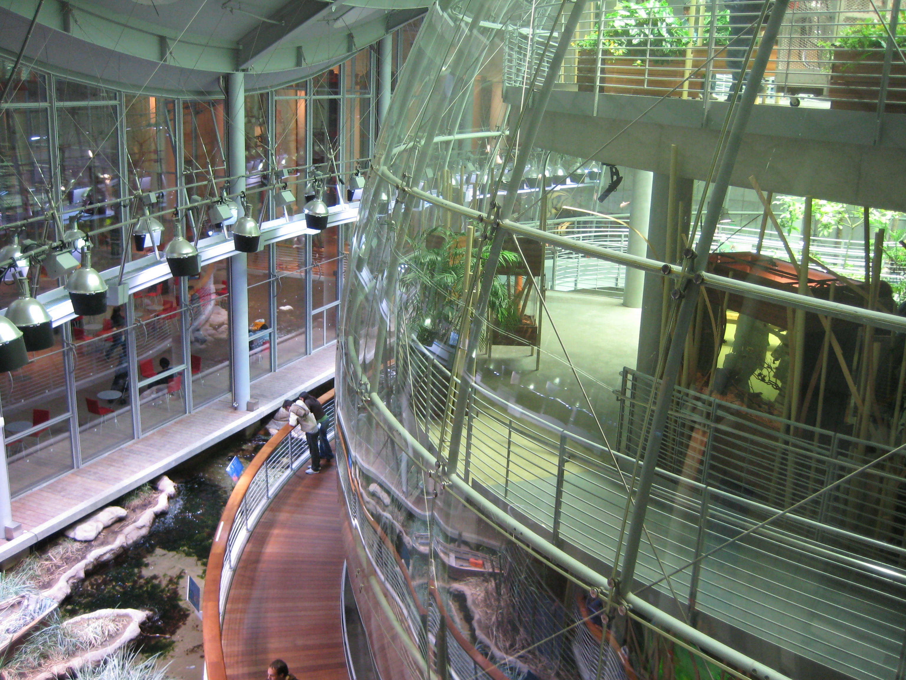 This is a bulb within the California Academy of Sciences which holds the mini-rainforest